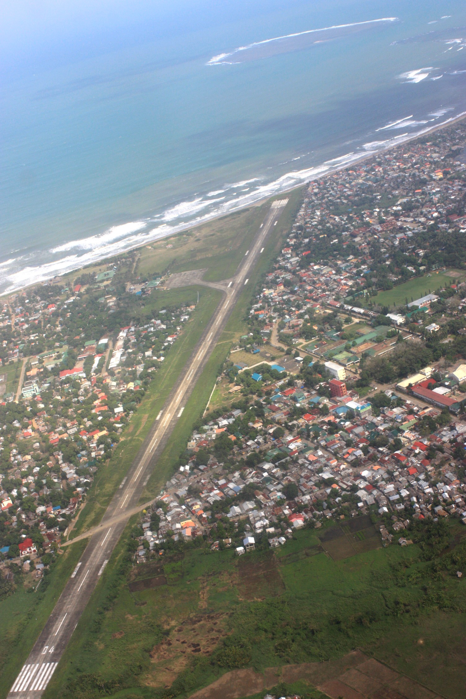 This is the my aerial shot of the airport runway. It is at the middle of the town.